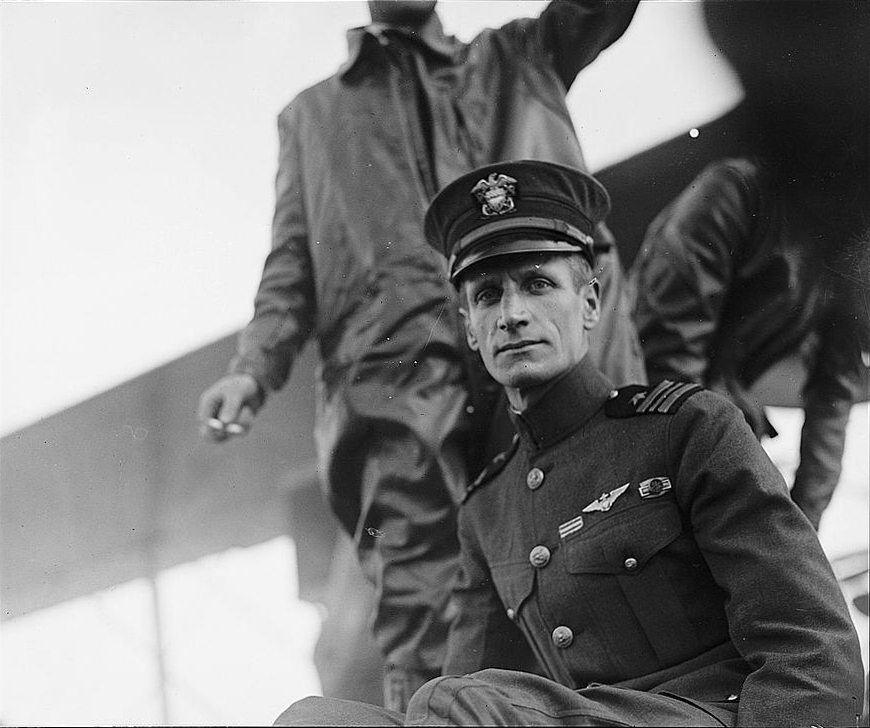 Commander Albert C. Read, NC 4